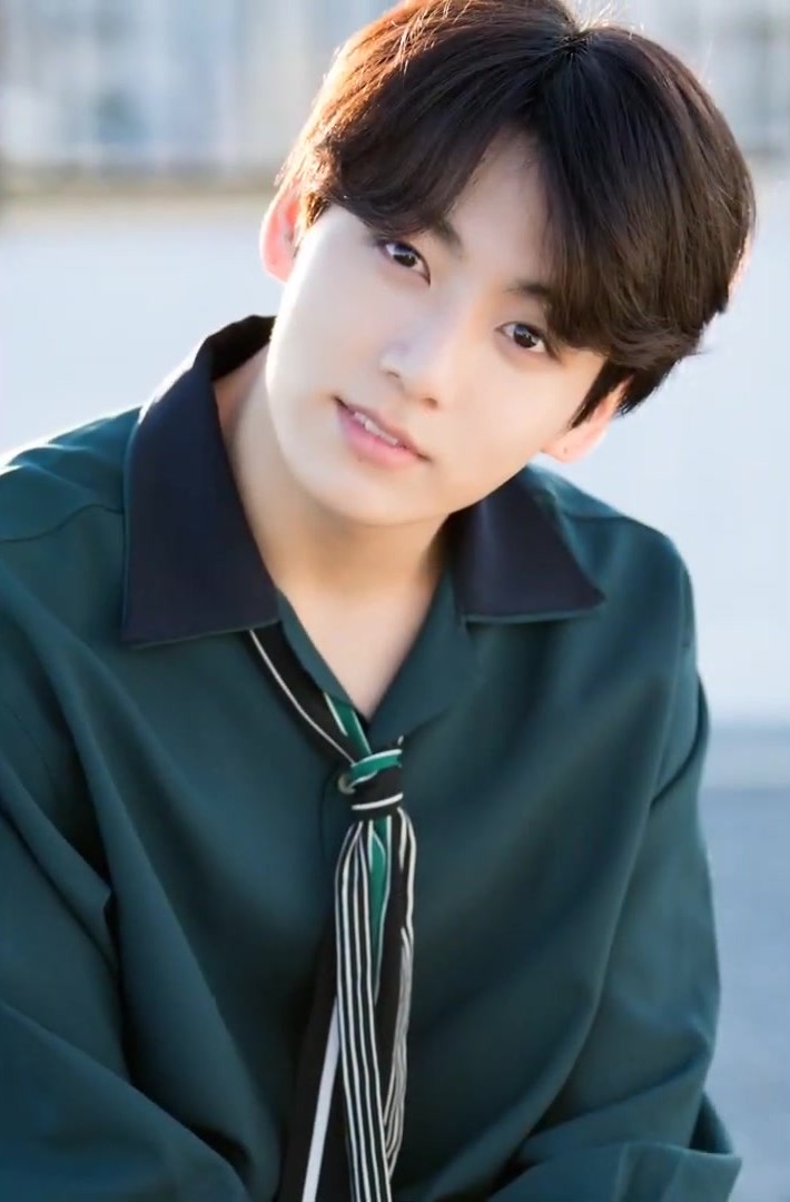 Jungkook for BTS 5th anniversary party in LA photoshoot by Dispatch, May 2018